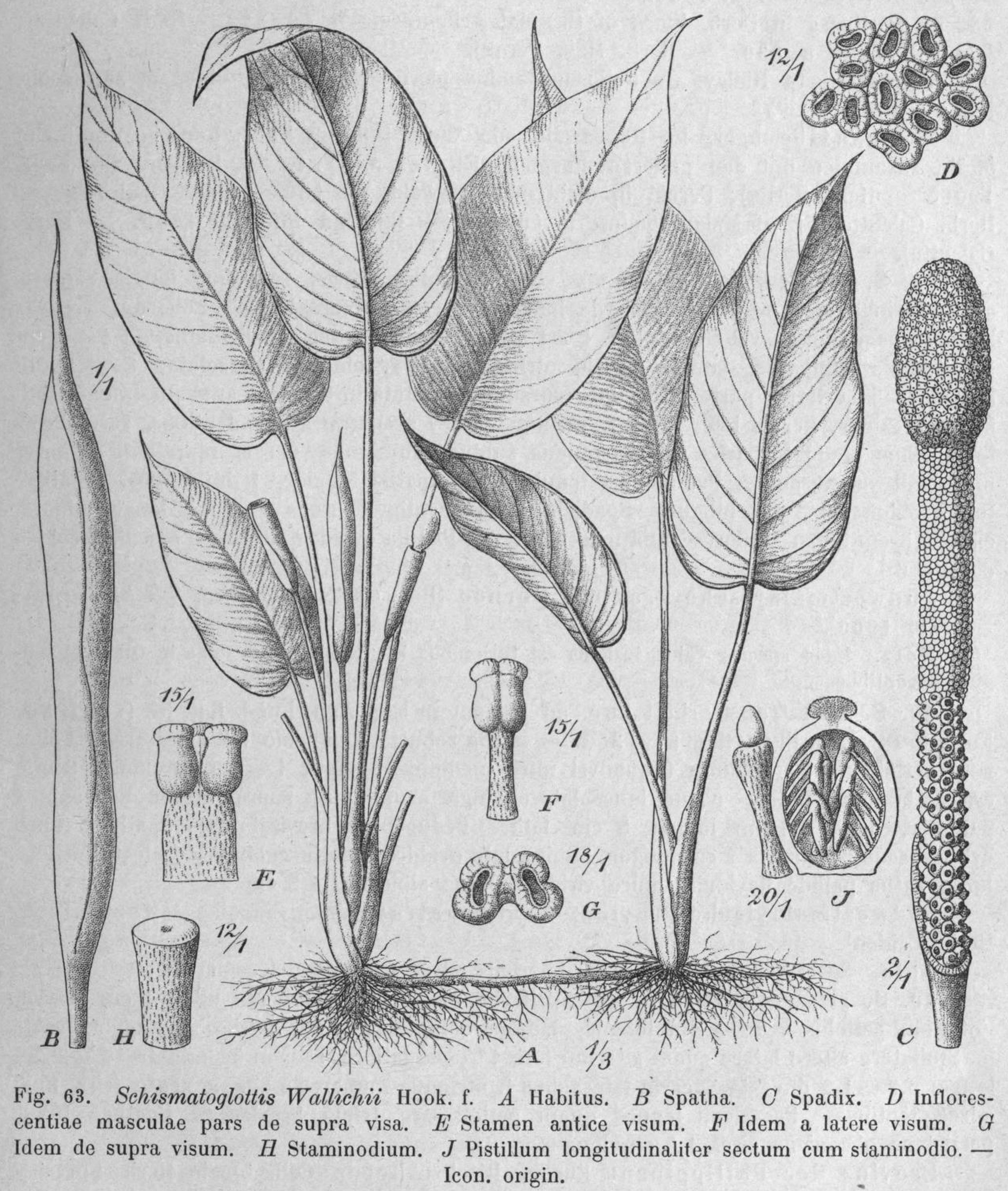 Schismatoglottis wallichii from Das Pflanzenreich